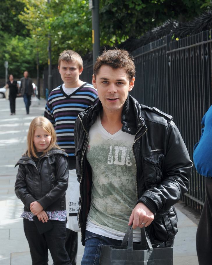 Kenny Doughty at Granada